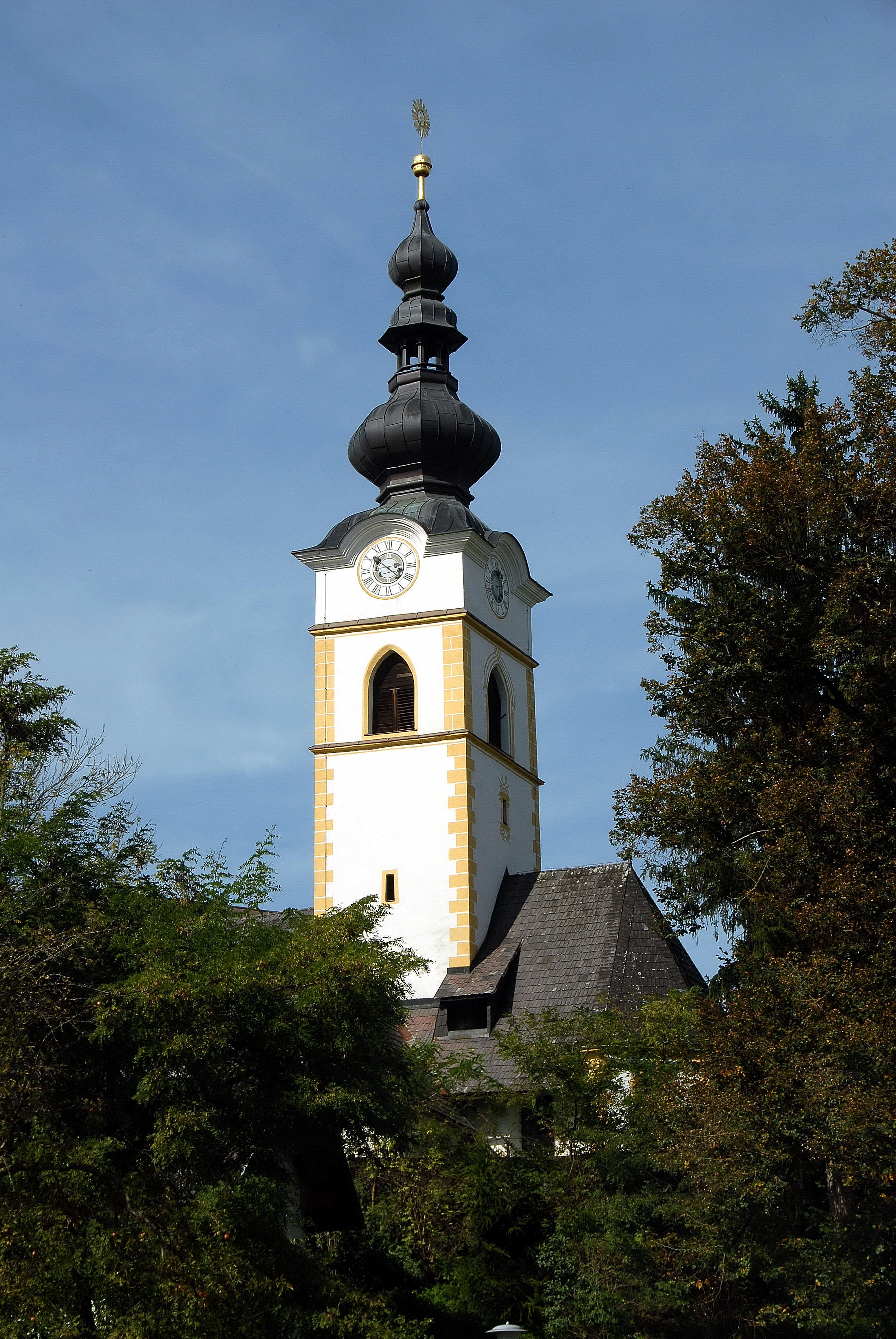 Parish church Holy Stephanus, municipality Grafenstein, district Klagenfurt Land, Carinthia, Austria